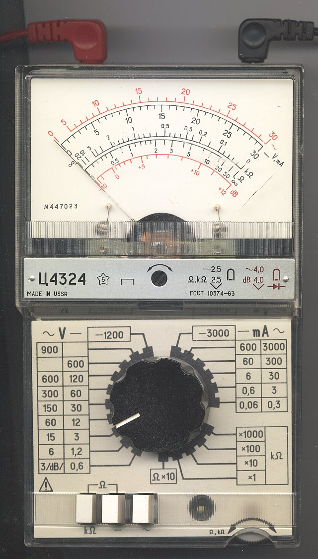 Ц4324 analog multimeter